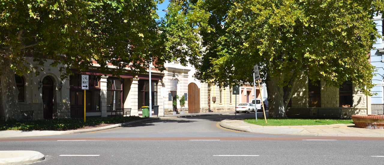 Phillimore Street and Mouat Street intersection, Fremantle, Western Australia looking into Mouat Street towards south